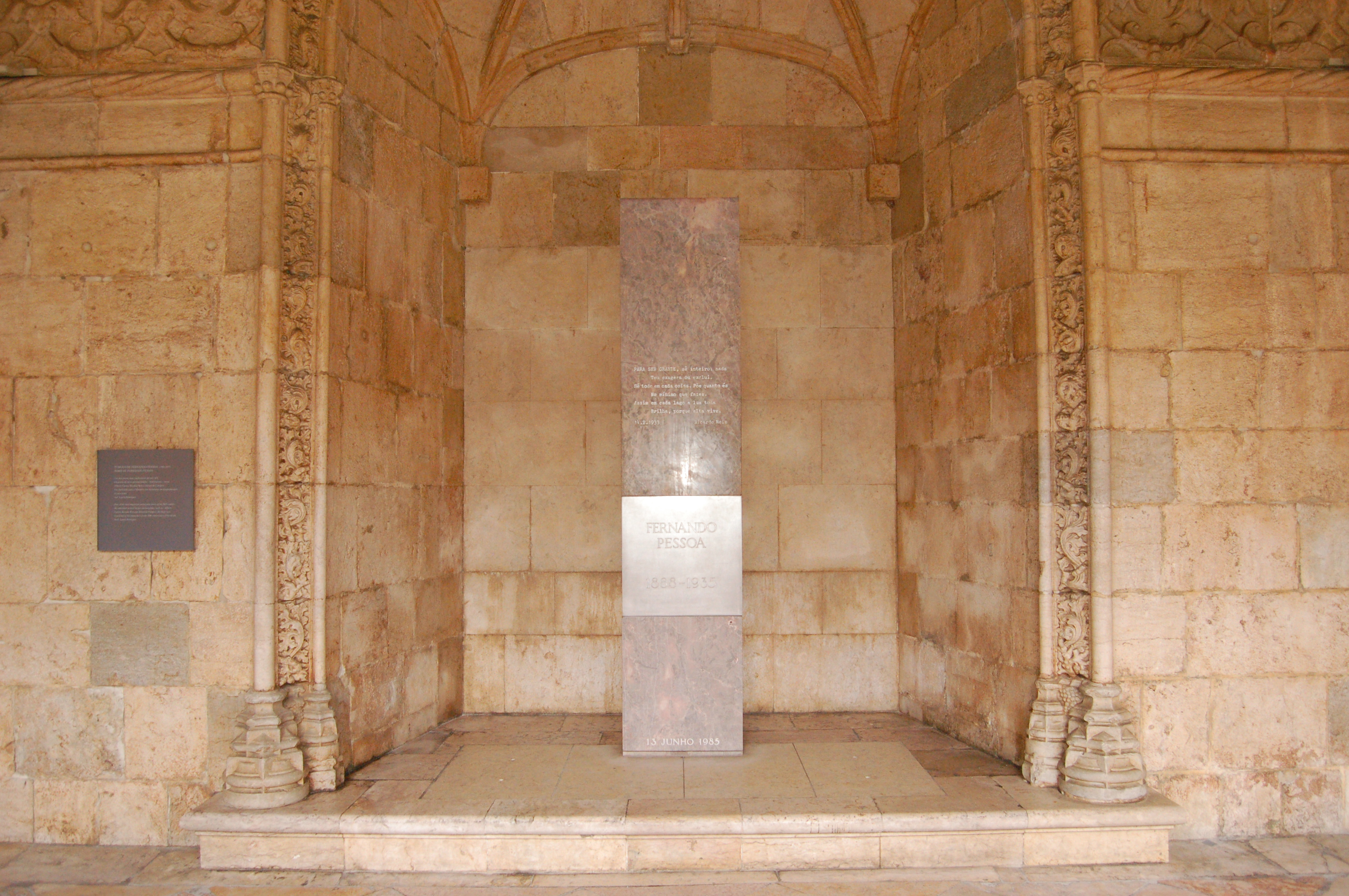 Pictures from when touristing in Lisbon, Portugal, December 2009